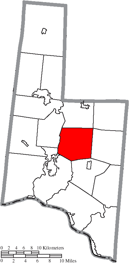 Map of the municipal and township boundaries of Brown County, Ohio, United States, as of the 2000 census, with the location of Franklin Township highlighted. Township borders are shown only in unincorporated areas in order to differentiate incorporated and unincorporated areas more clearly.